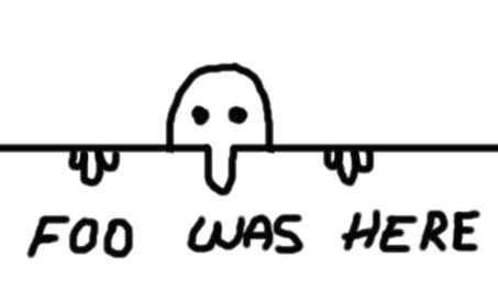 Self-made, author = RedDawn, free of copyright